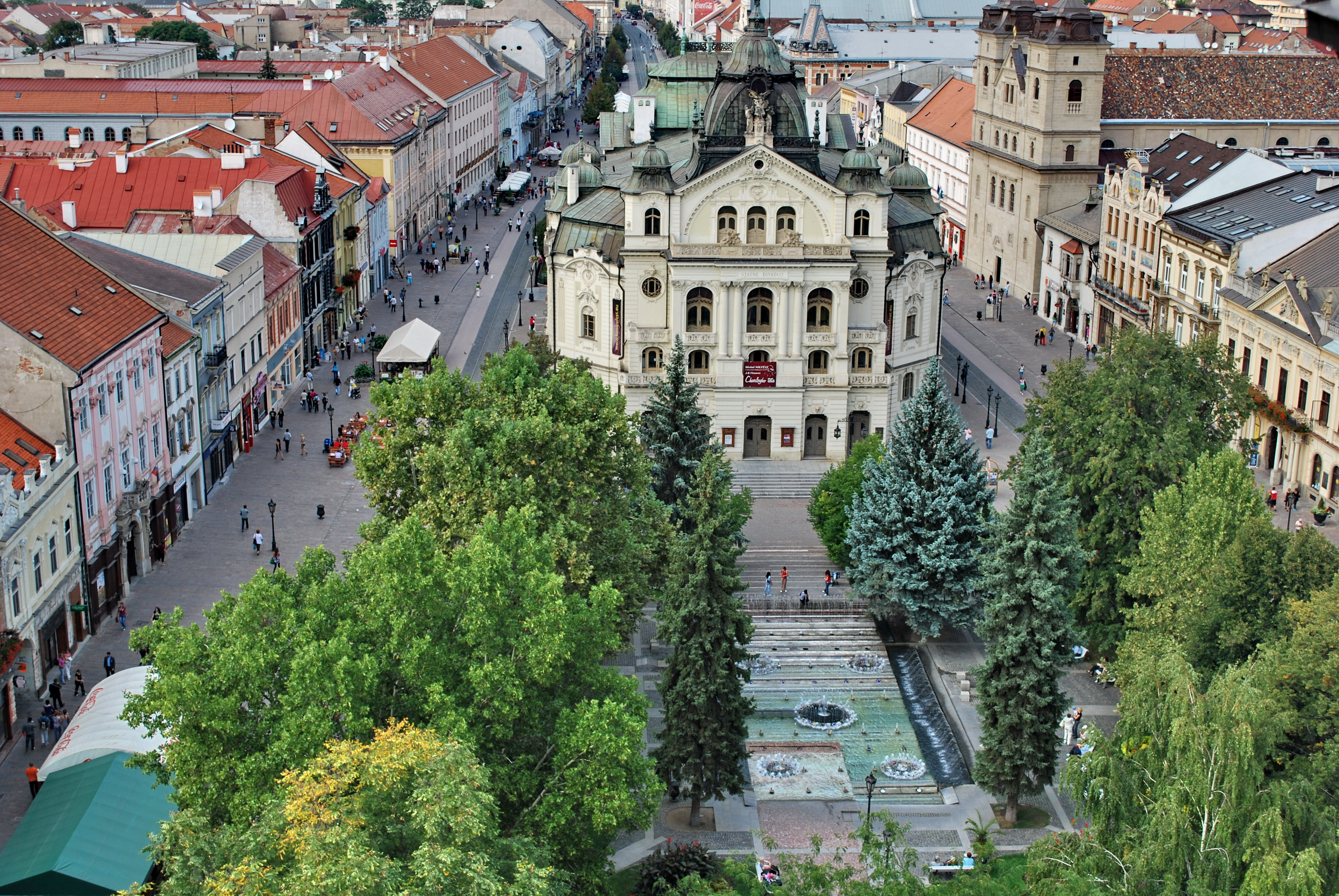 State Theathre Kosice